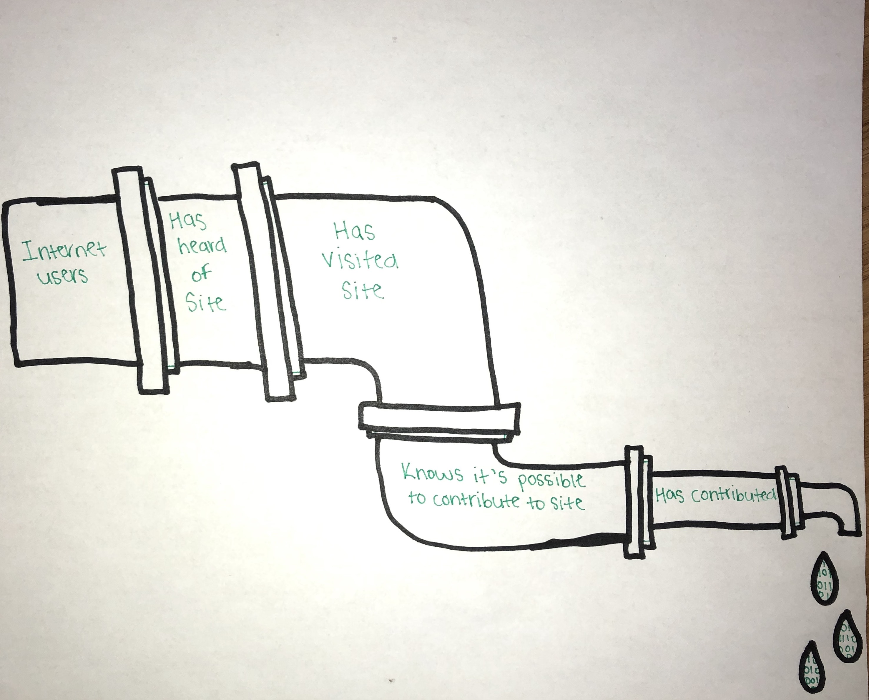 Schematic drawing of a pipeline of online participation